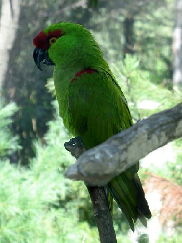 Thick-billed Parrot (Rhynchopsitta pachyrhyncha) at Queens Zoo, New York.